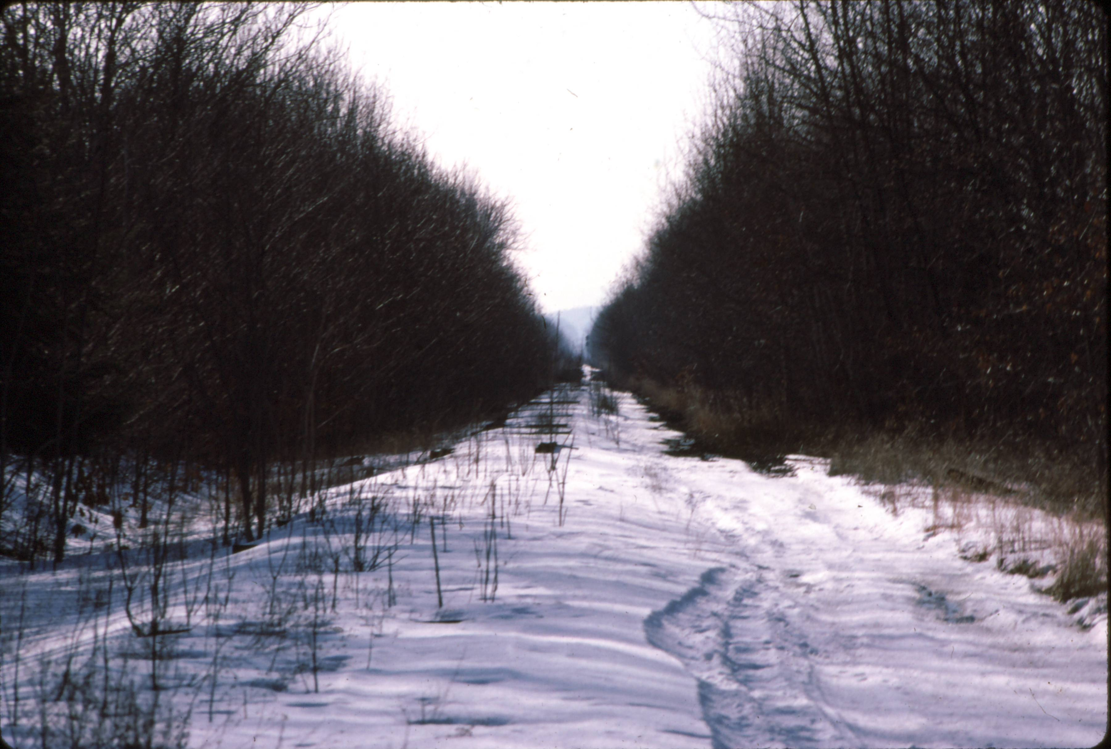 Chuck Walsh, 1988 Category:Images of New Jersey Summary Chuck Walsh, 1988